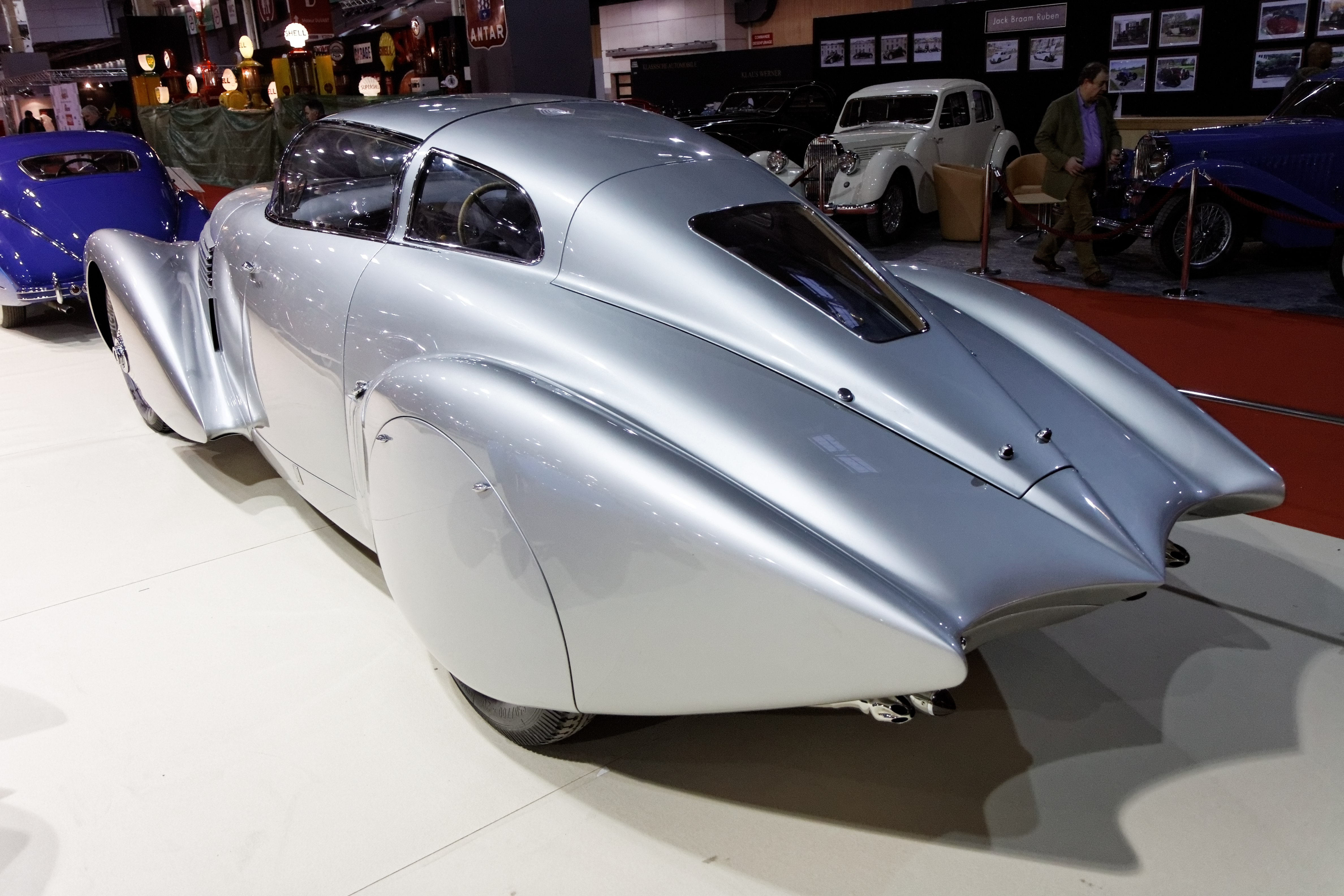 Hispano-Suiza type H6 C